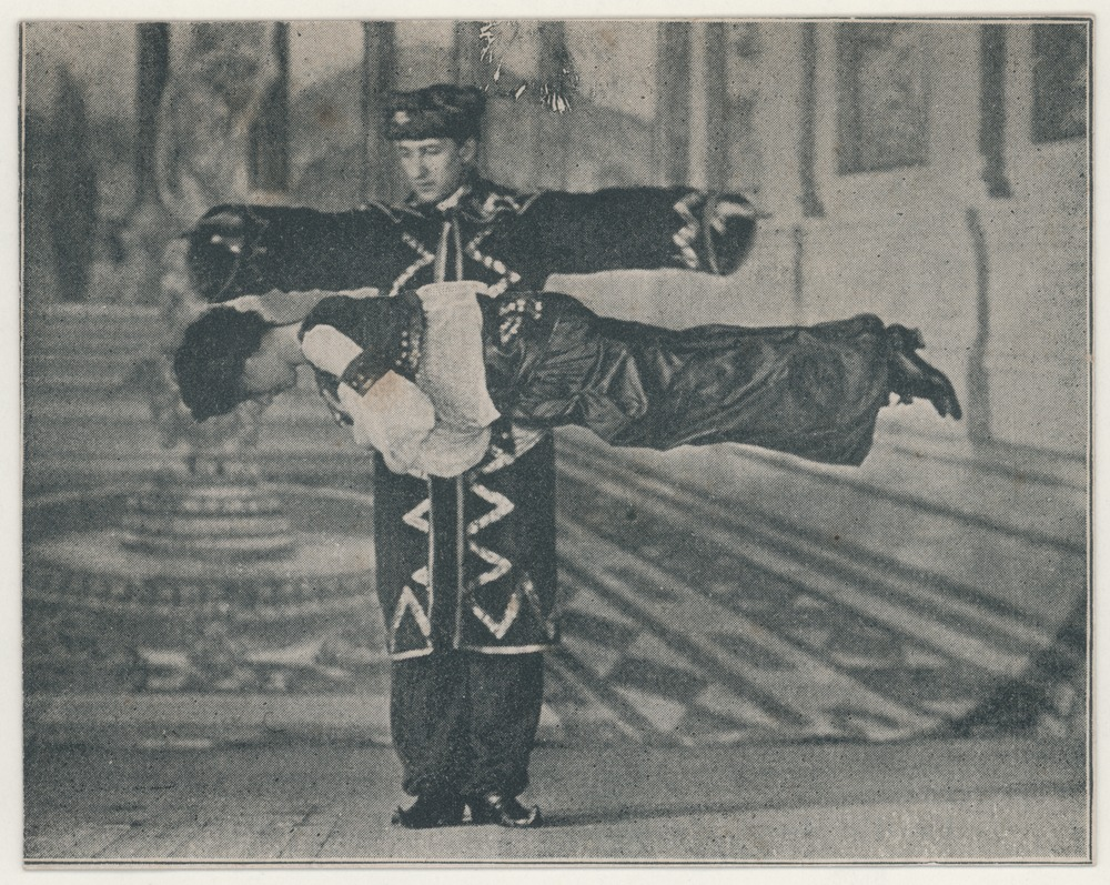 The magician Howard Thurston performing a levitation illusion.